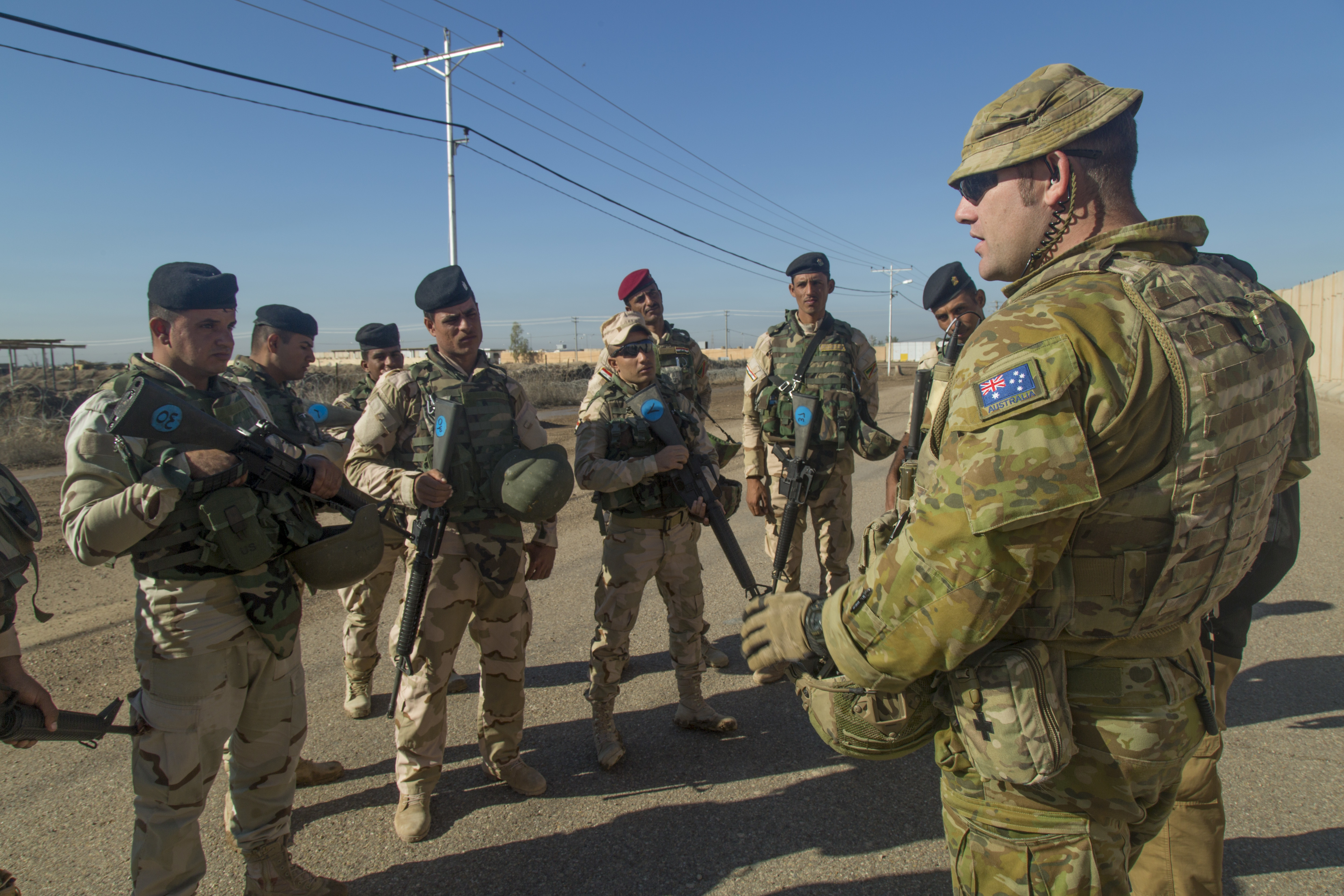 An Australian soldier assigned to Task Group Taji conducts an after action review with Iraqi soldiers assigned to 71st Iraqi Army Brigade at Camp Taji, Iraq, Nov. 3, 2015. The Australian soldier led the AAR to assist the Iraqi soldiers with learning from their experiences to become more proficient in their battles against the Islamic State of Iraq and the Levant. The training is part of Combined Joint Task Force – Operation Inherent Resolve’s building partner capacity mission led by coalition members assigned to Task Group Taji.